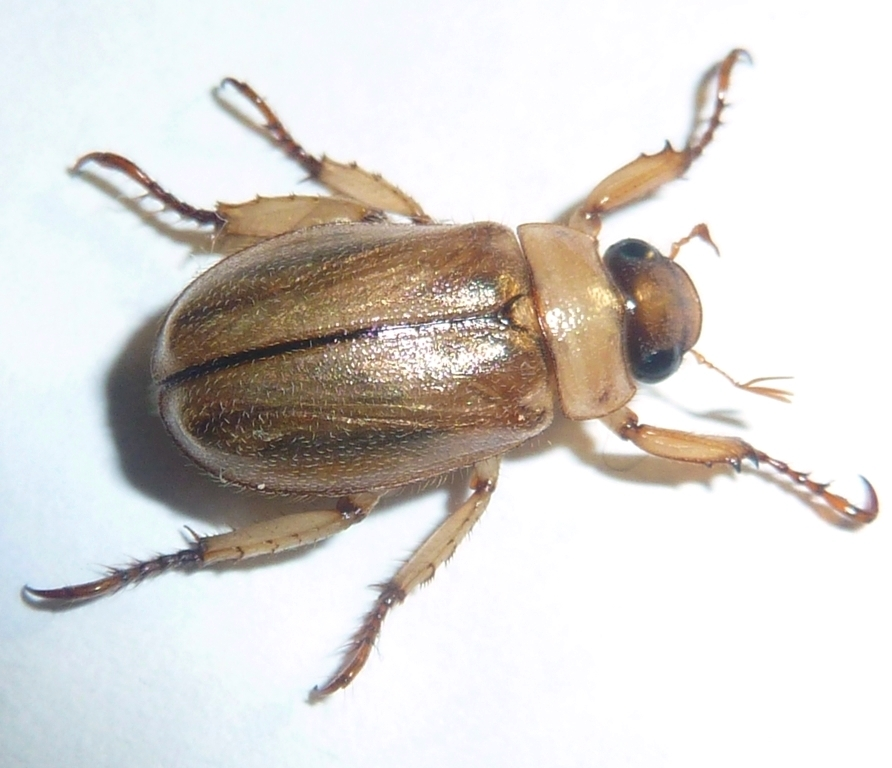 Wattle chafer in suburban Pretoria. Attracted to light.